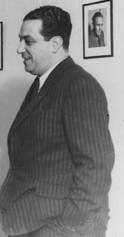 Miguel Ángel Manzi- actor uruguayo